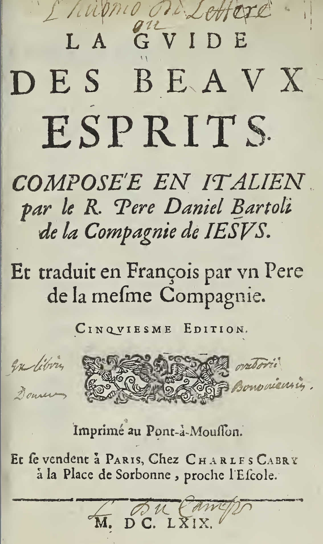 French translation of Daniello bartoli's L'huomo di lettere (1645)